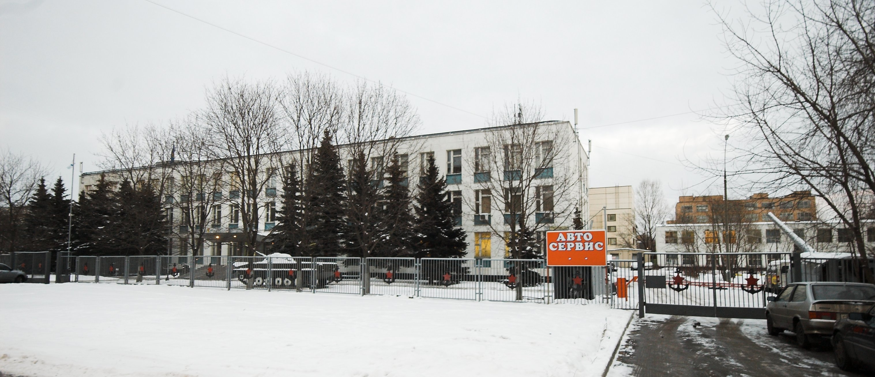 Moscow Unified Naval and Radiotechnic School of the DOSAAF